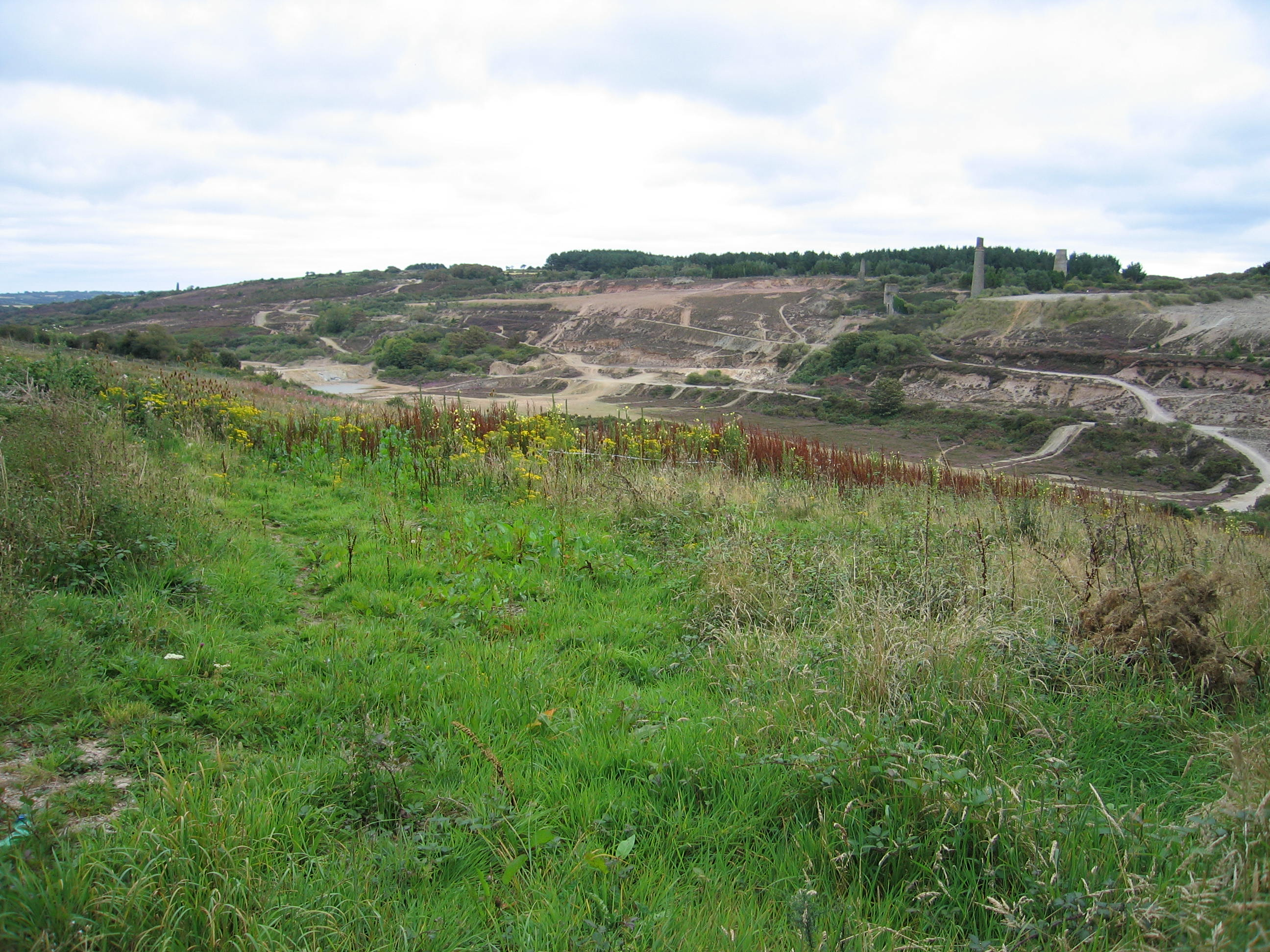 The site of the disused Consols (Consolidated Mine) copper mine to the east of St Day in Cornwall. It shows the badly scarred landscape of the area.